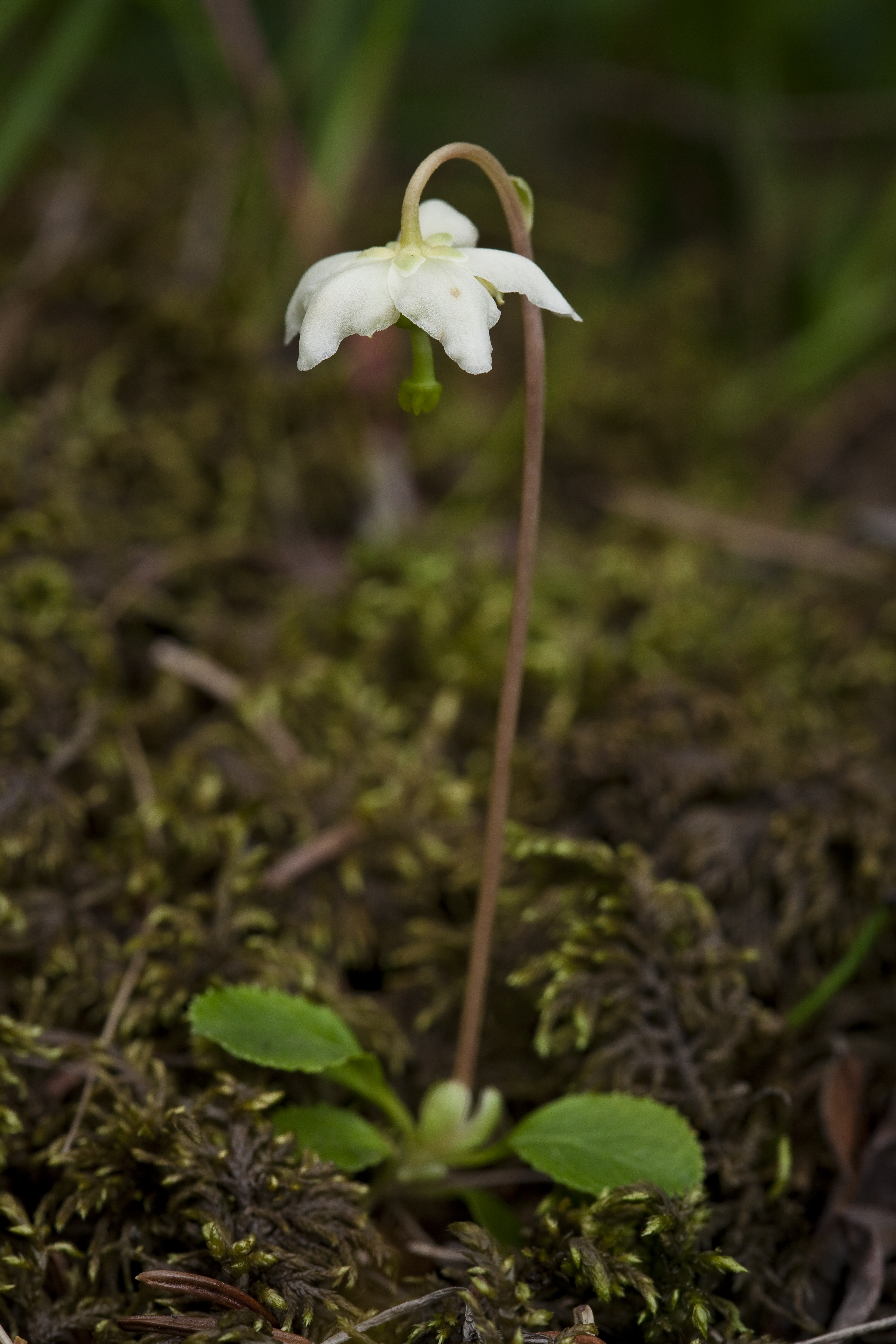 Moneses uniflora, Denali National Park and Preserve, AK, USA